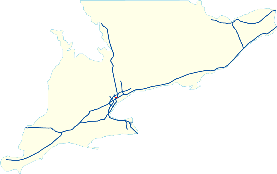 Route Map, Highway 409